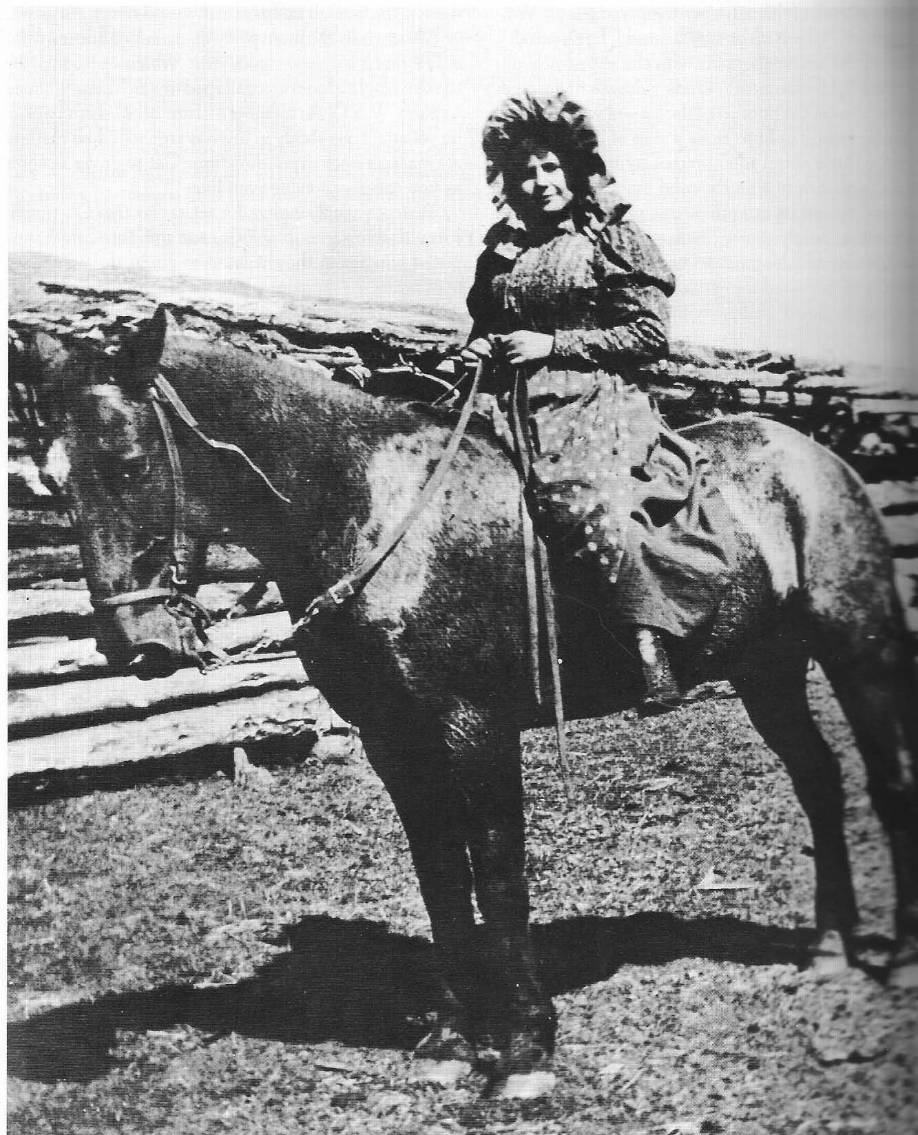 Ella Watson. Taken in the 1880s or earlier. Date and Artist Unknown.